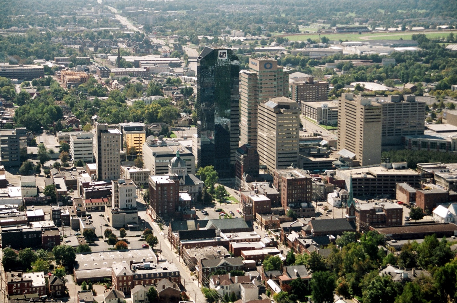 Downtown Lexington, Kentucky. The Lexington Financial Center (blue building) is the city's tallest.